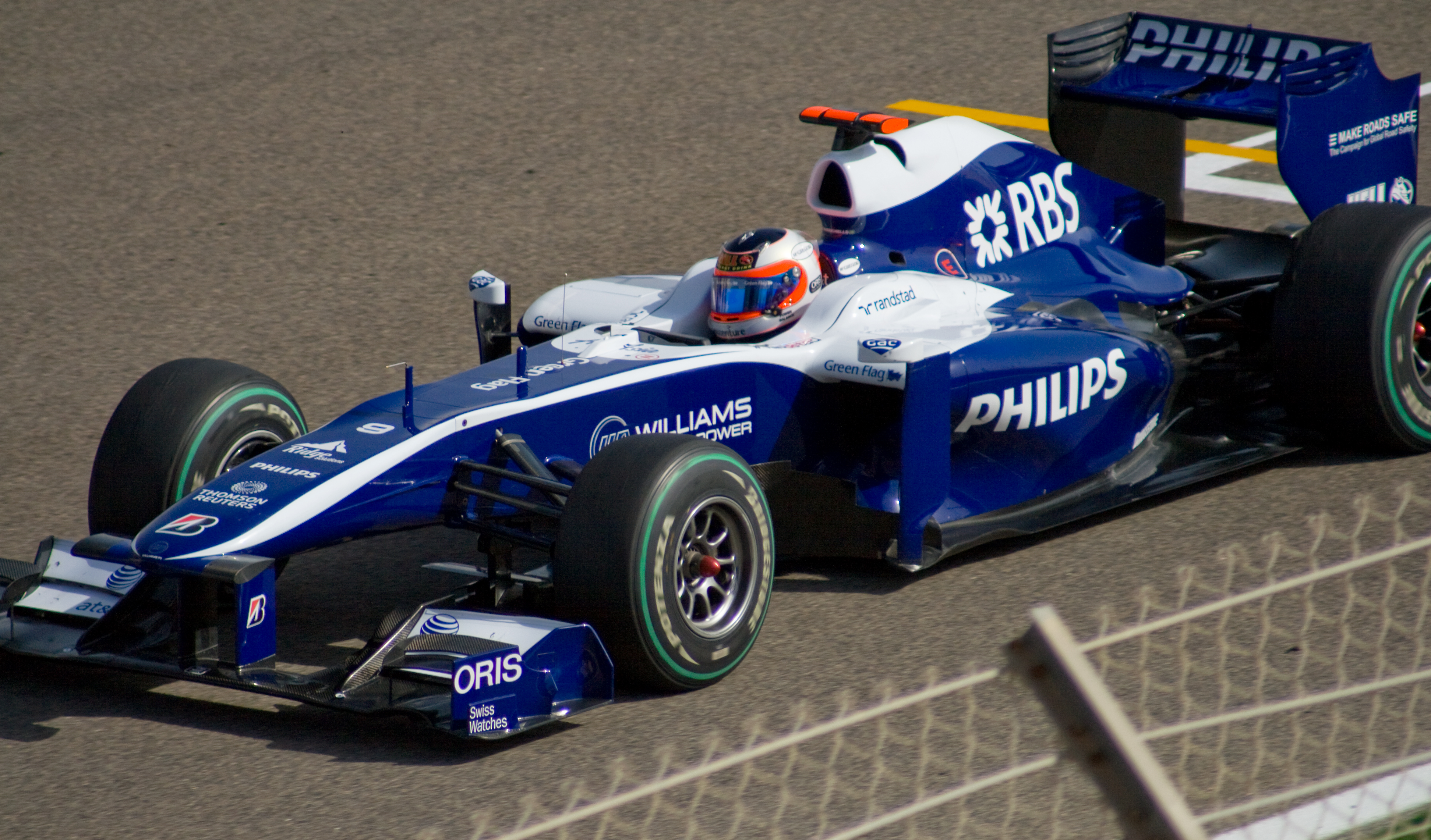 Rubens Barrichello during a practice session in Bahrain.